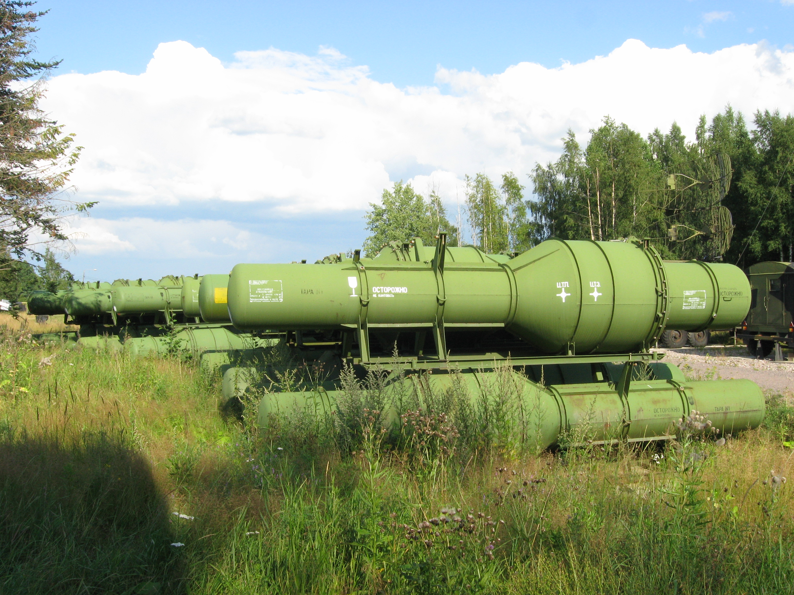 SA-3 "Goa" or S-125 Pechora surface-to-air missile containers, known as "ItO 79" in Finnish service, kept at slight overpressure, filled with nitrogen, at Anti-Aircraft Museum, Tuusula, Finland